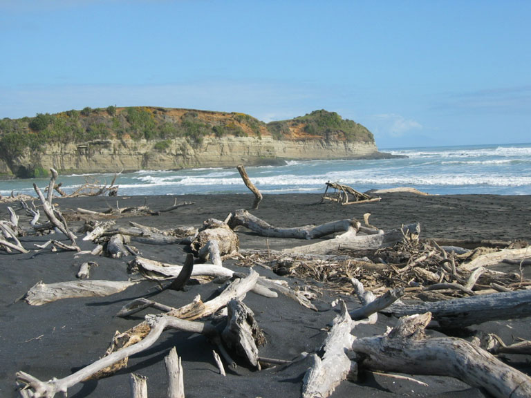 Photo by Larry Ferens - the Mokau River entering the North Taranaki Bight, taken 2005